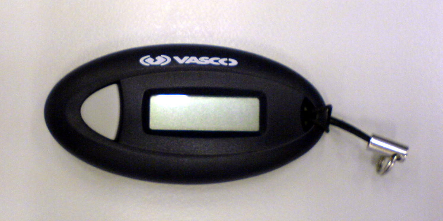 VASCO Digipass Go3 taken by me for Digipass article